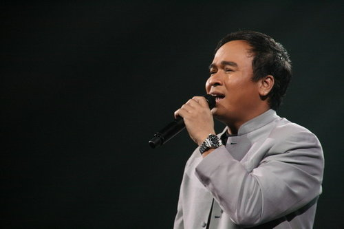 Thongchai Prasongsanti at Babb Prapas Concert's concert at National Cultural Center, Sunday 6th July, 2008.